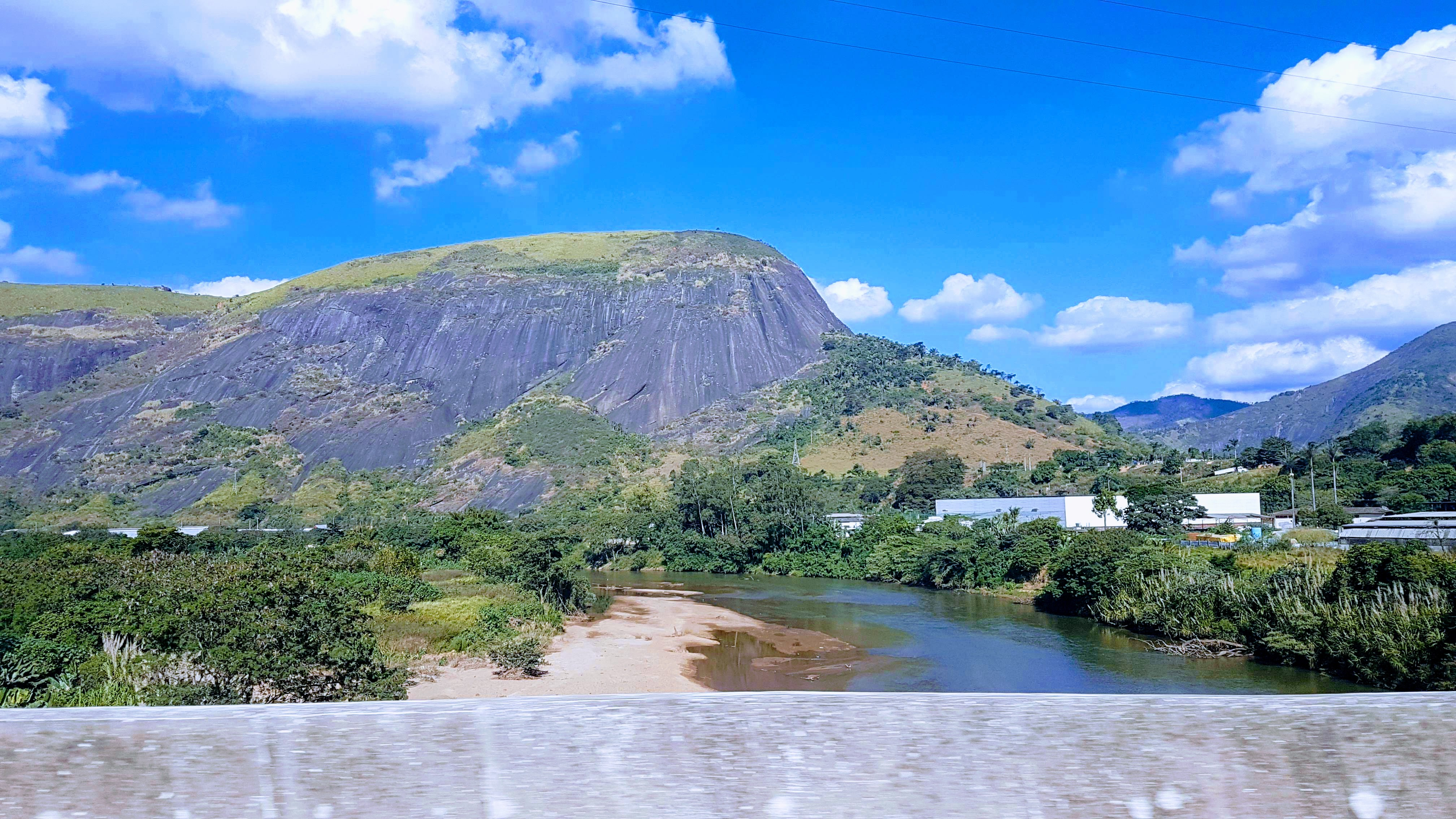 Baratinha peak, viewd from BR-381 highway bridge over Piracicaba River, at the border between the municipalities of Timóteo and Antônio Dias, Minas Gerais, Brazil.